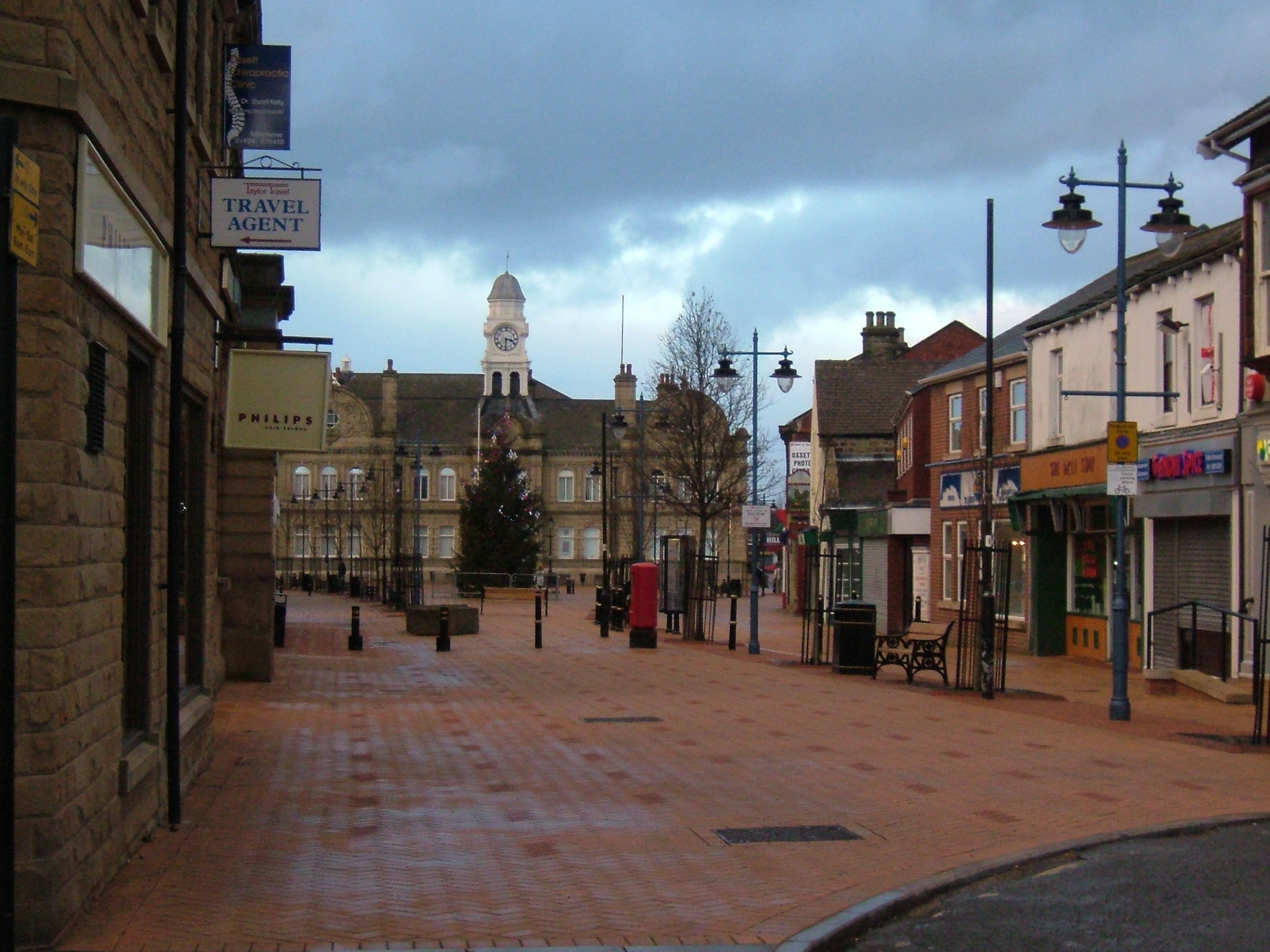 Photo I took myself of Ossett town centre in Yorkshire. It shows the old Town Hall building and the pedestrianised area in front of it. Taken on New Year's Day, 2005.